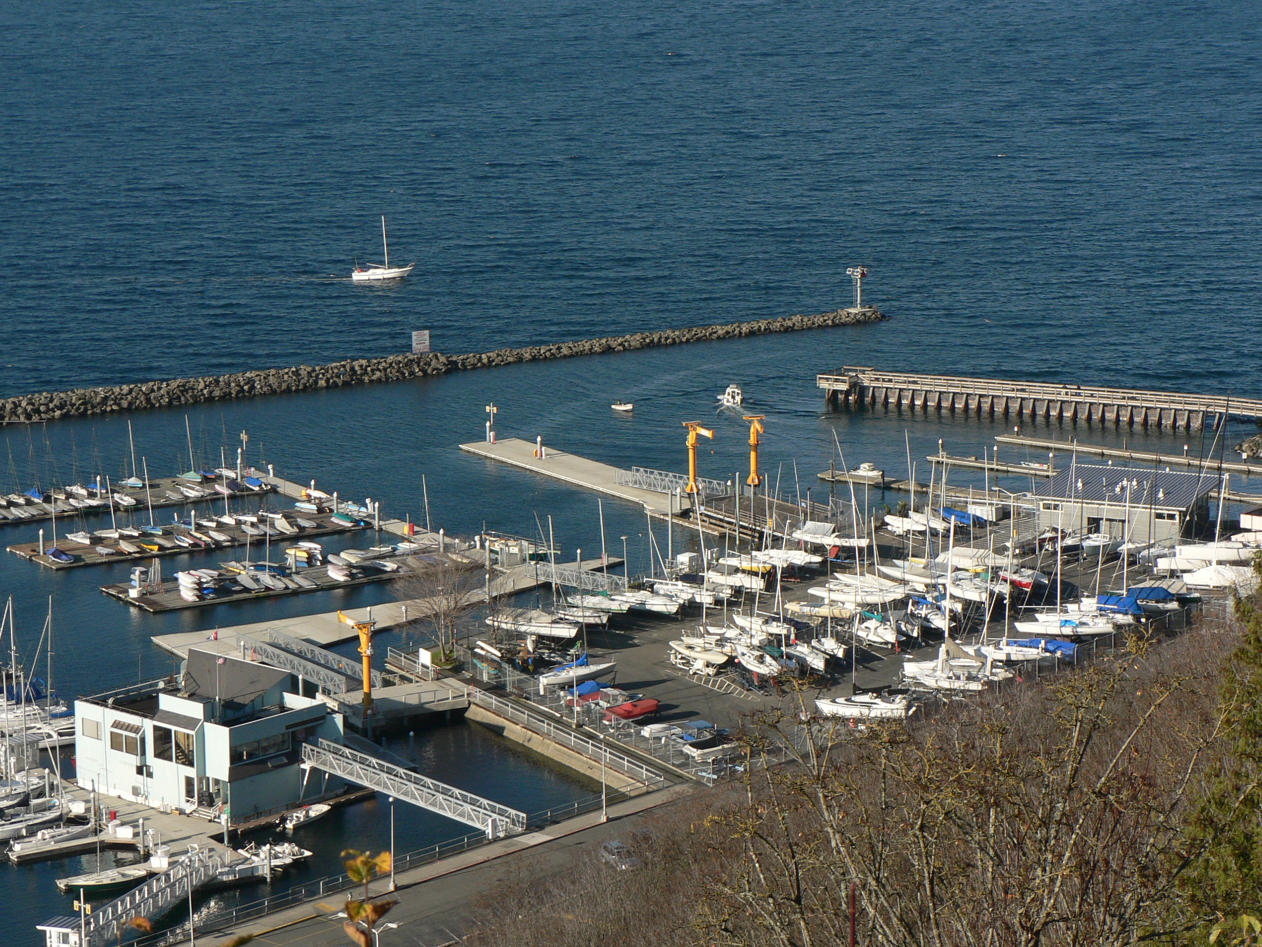 Shilshole Bay Marina; boat storage; breakwater